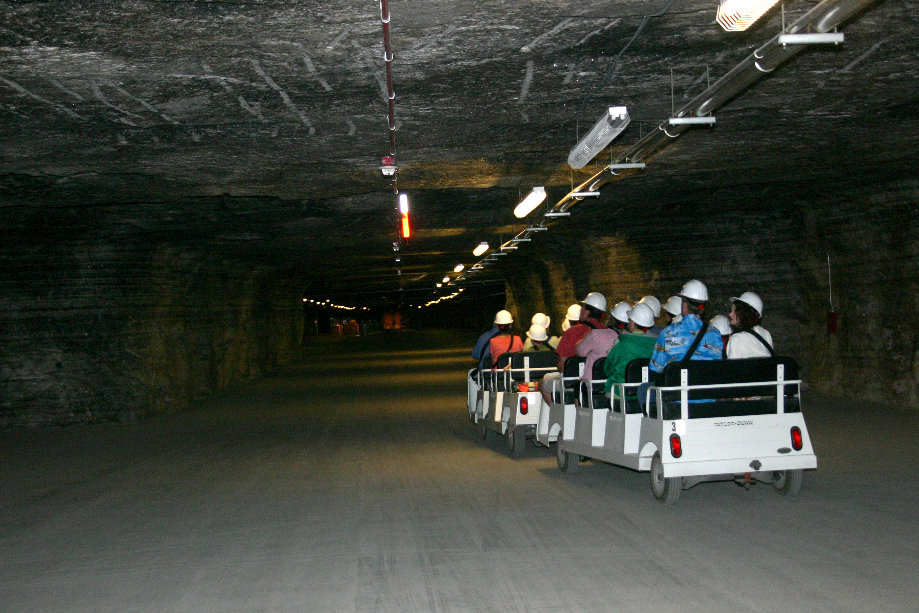 A tram ride begins in the Great Hall at the Kansas Underground Salt Museum. Camera: Canon EOS Digital Rebel License on Flickr (2010-12-30): CC-BY-2.0